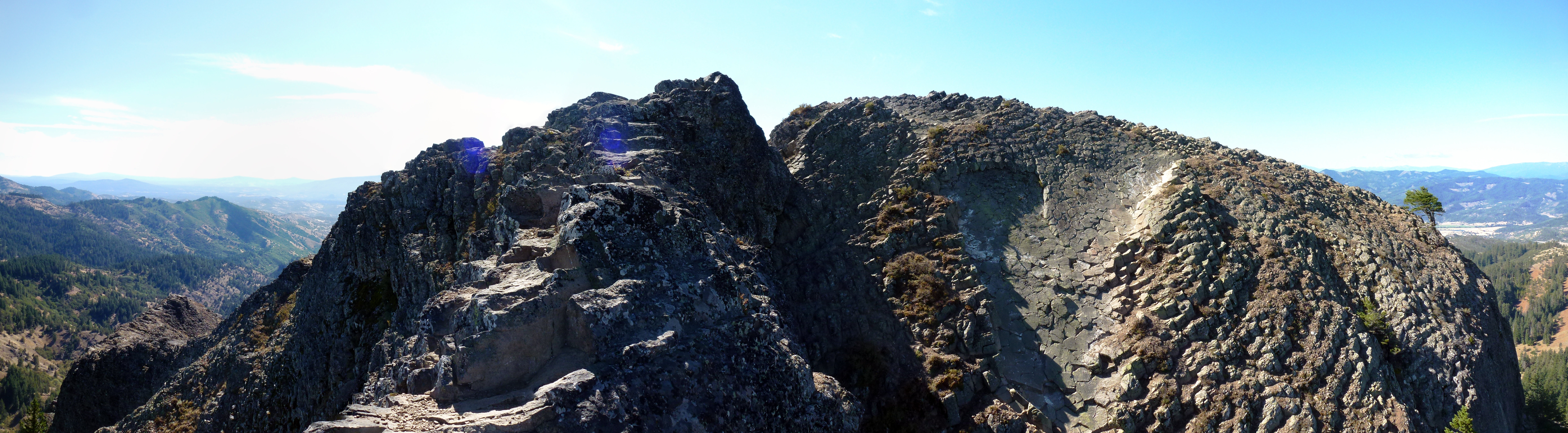 The summit of Pilot Rock from the northern edge of the rock.